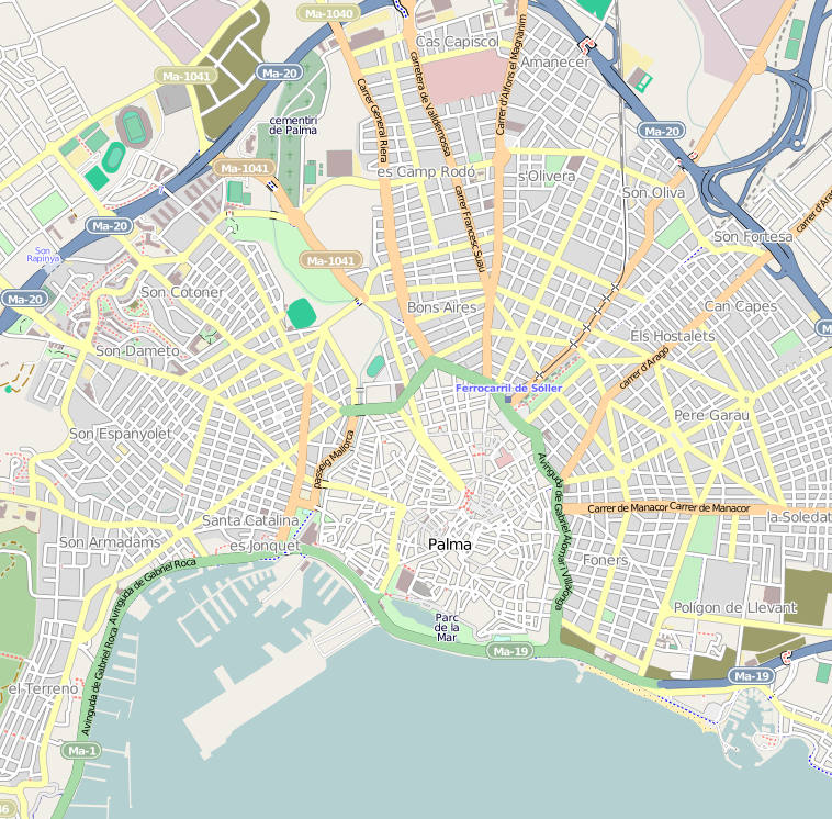 Map of Palma de Mallorca Geographic limits of the map: N: 39.5961° S: 39.5563° W: 2.6216° E: 2.6741°